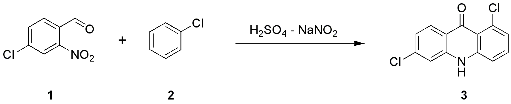 Algemeen schema Lehmsted-Tanasescu acridon synthese. Eigen creatie